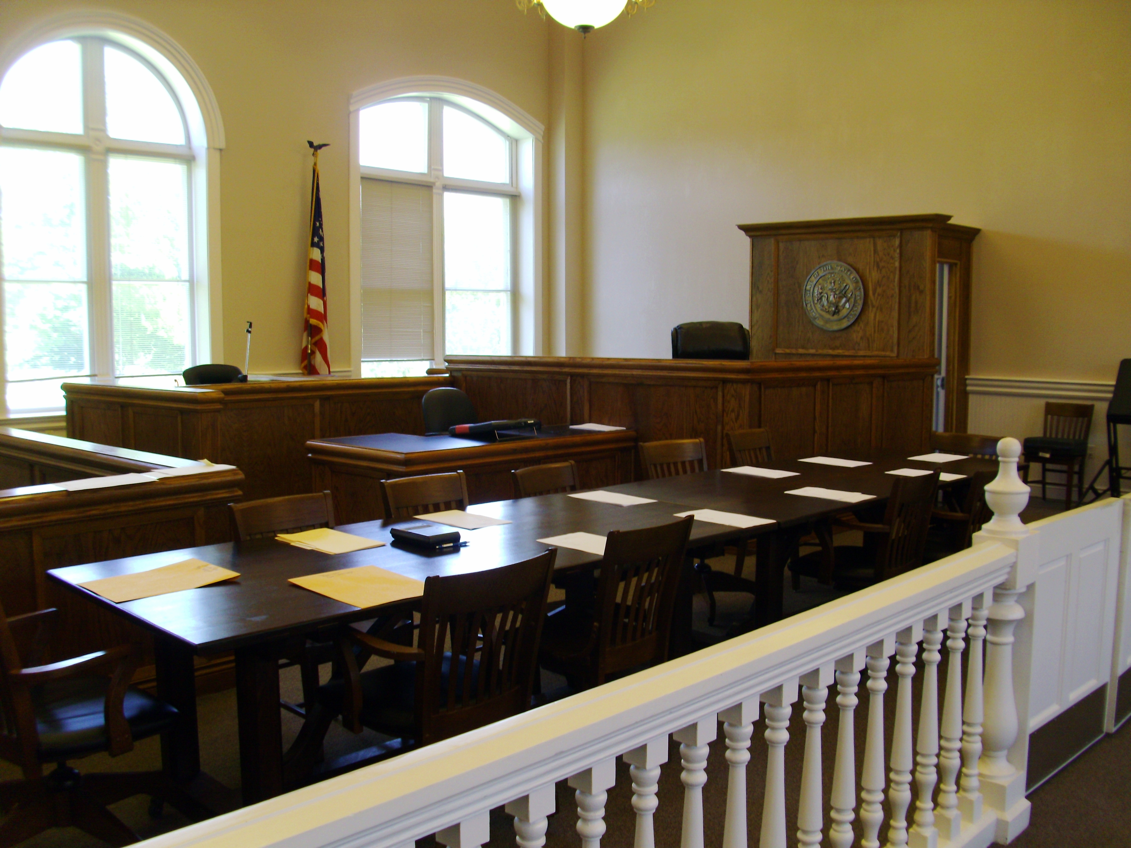 Robert S. Moore Ave. 1900 Romanesque Revival structure